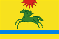 Argayash rayon (Chelyabinsk oblast), flag